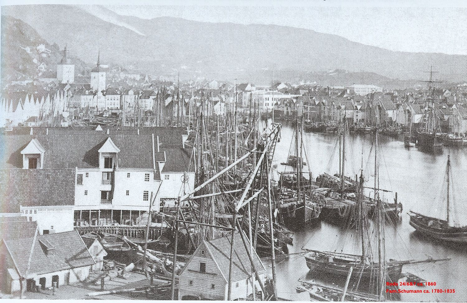 Photo of Bergen harbour showing Rode 24, houses 6 and 7. Owned by Andreas Schumann and his descendants ca. 1800-1840